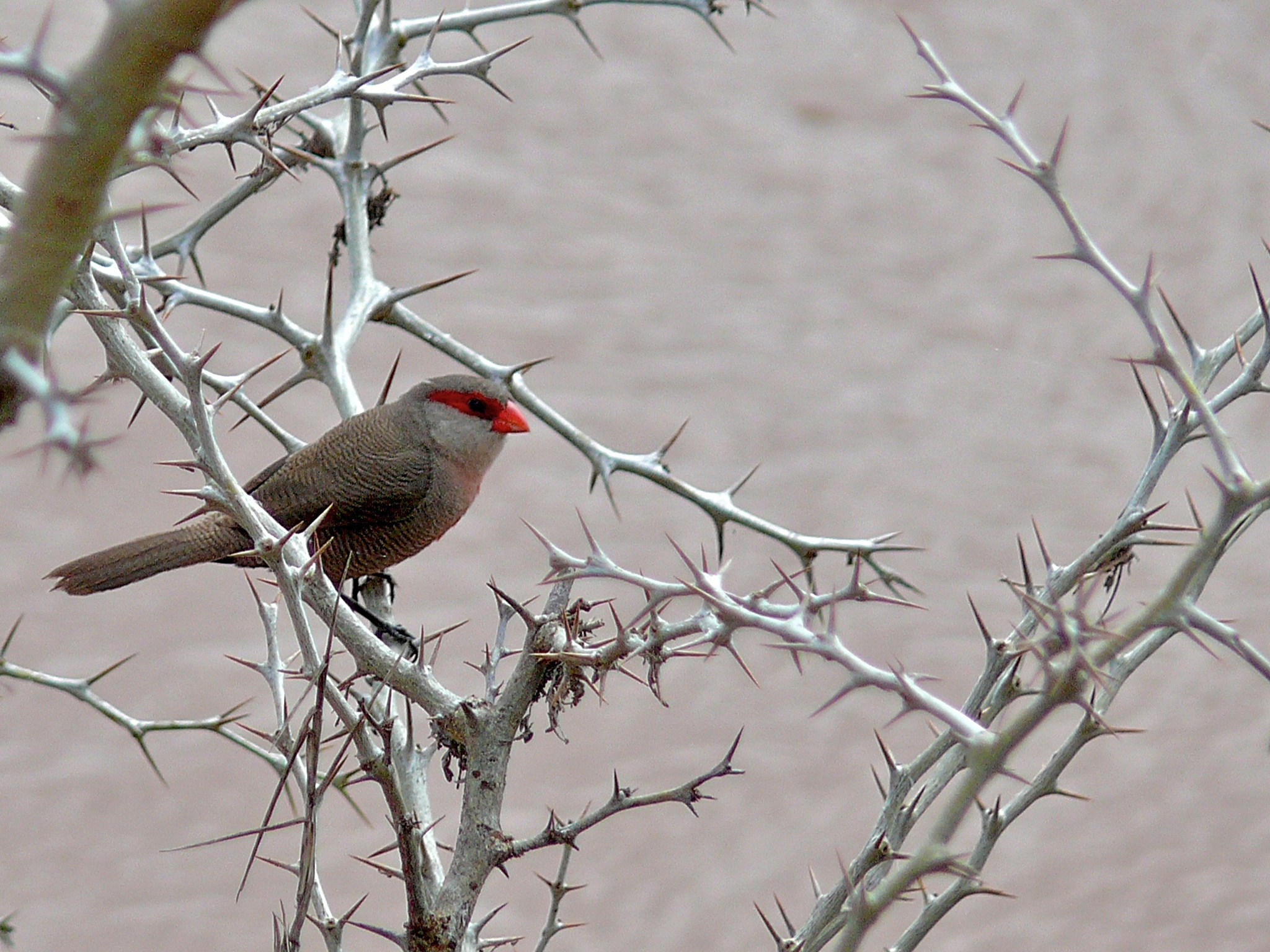 Crooks Corner near Pafuri, Kruger NP, SOUTH AFRICA